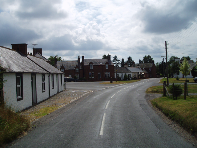 Kirkton. A view south through this picturesque village situated a short distance north of Dumfries. The village has many fine buildings clustered around a triangular village green which can be seen in the photograph.